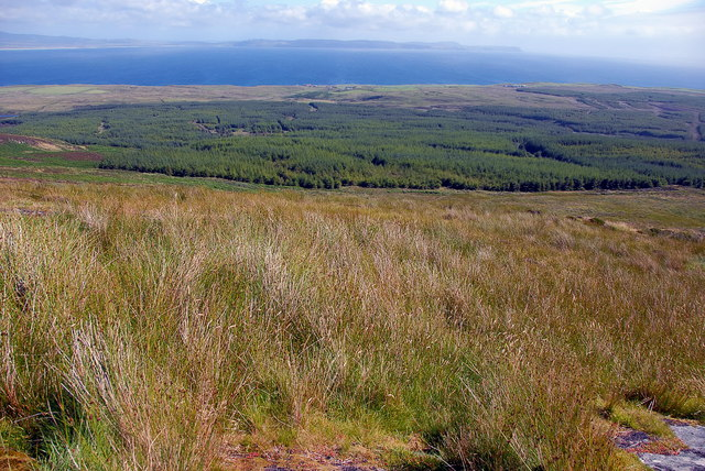 Beinn Tart A' Mhill summit, highest point of the Rinns of Islay, looking south-east towards the Mull of Oa